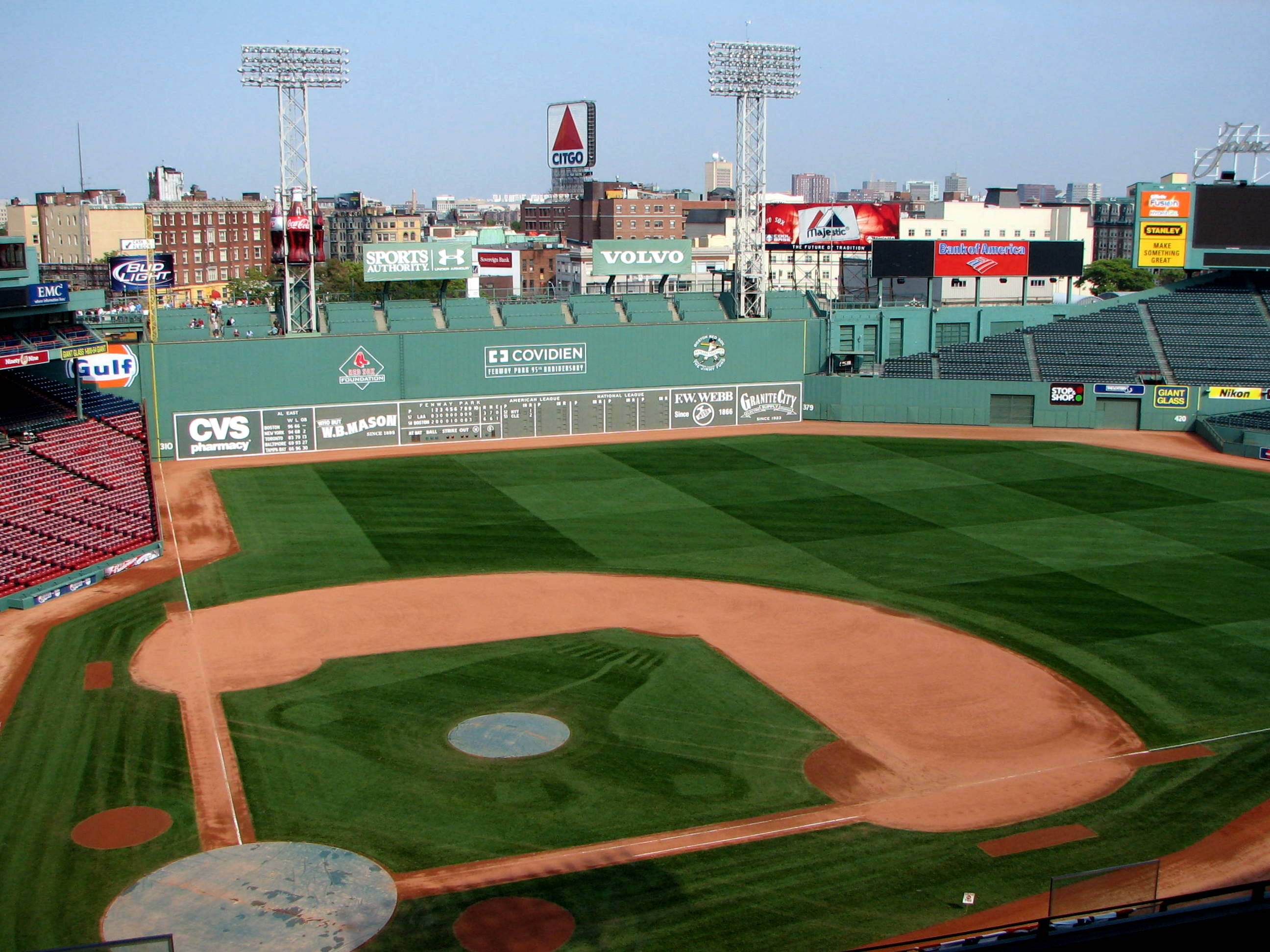 Fenway Park, home of the Boston Red Sox, Boston, Massachusetts, USA